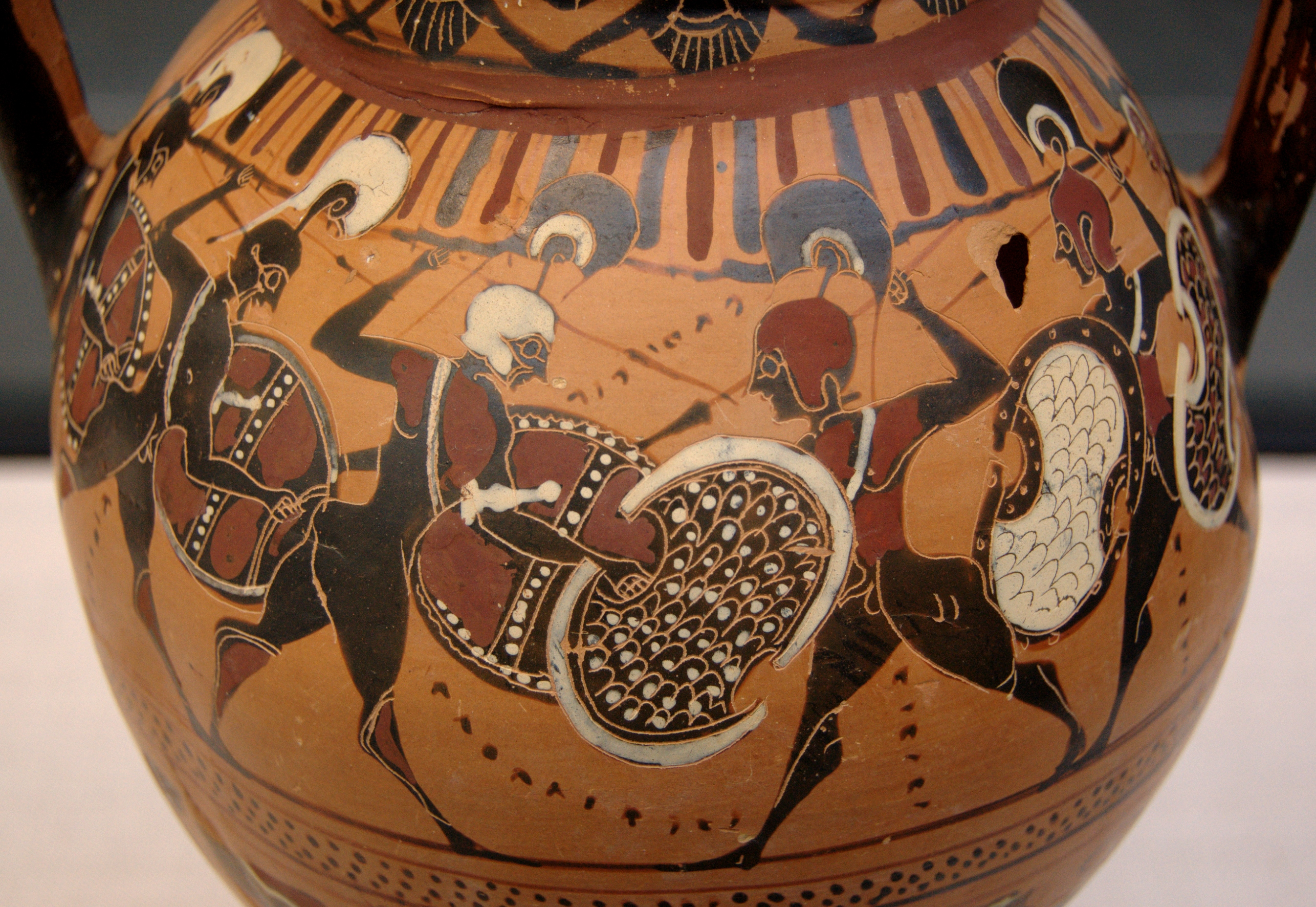 Phalanx. Side A of an Attic black-figure Tyrrhenic amphora, ca. 560 BC.